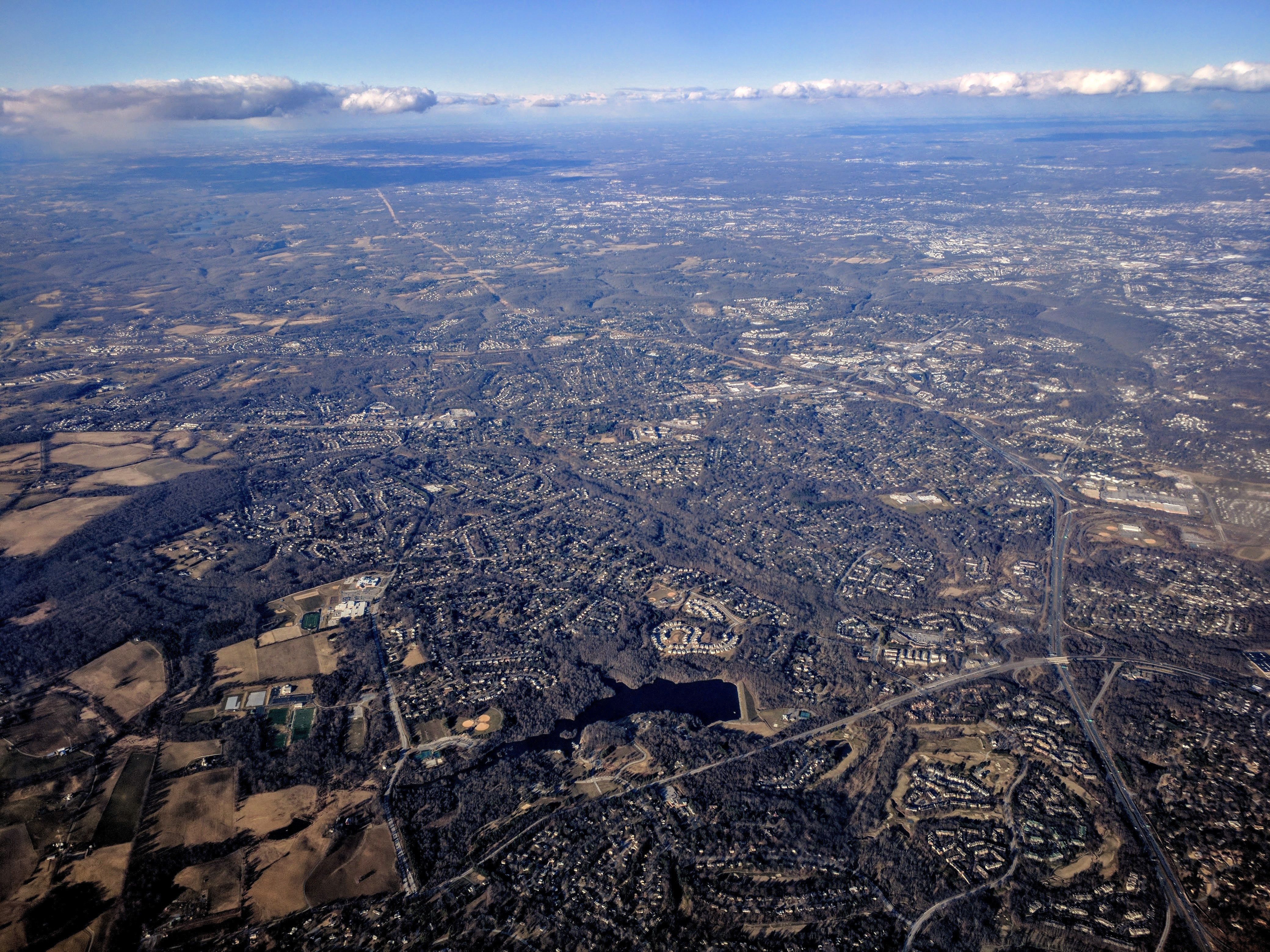 Aerial view with Centennial Lake (Maryland) (lower center) in Centennial Park, in Ellicott City, Maryland, the suburb of Baltimore that fills the center of the photo.